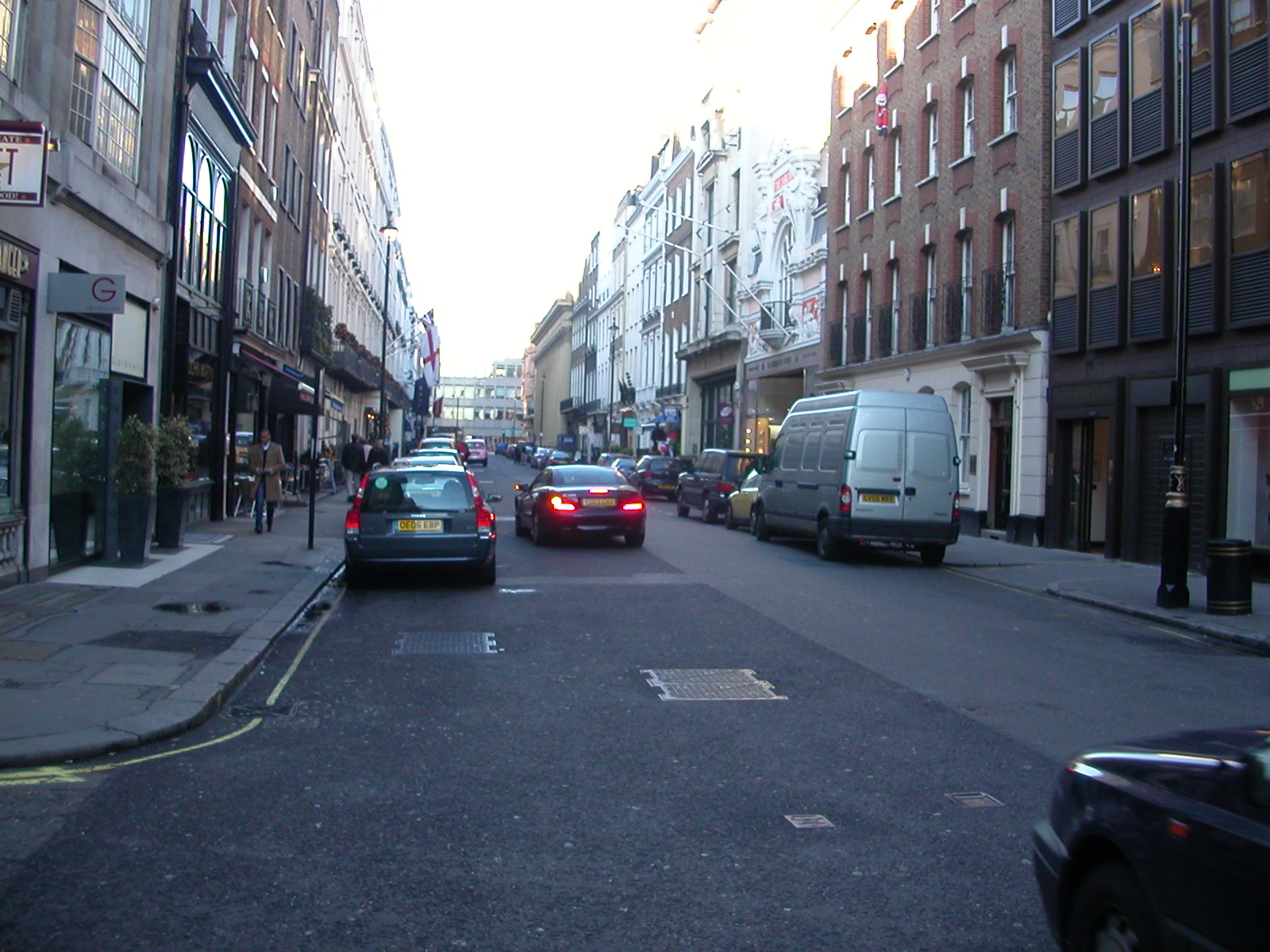 Northward view of Albemarle Street, London. Photographed on 16th December 2006.